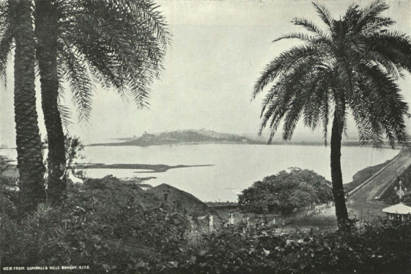 Showing the Vellard on the right, a favourite Sunday evening drive.